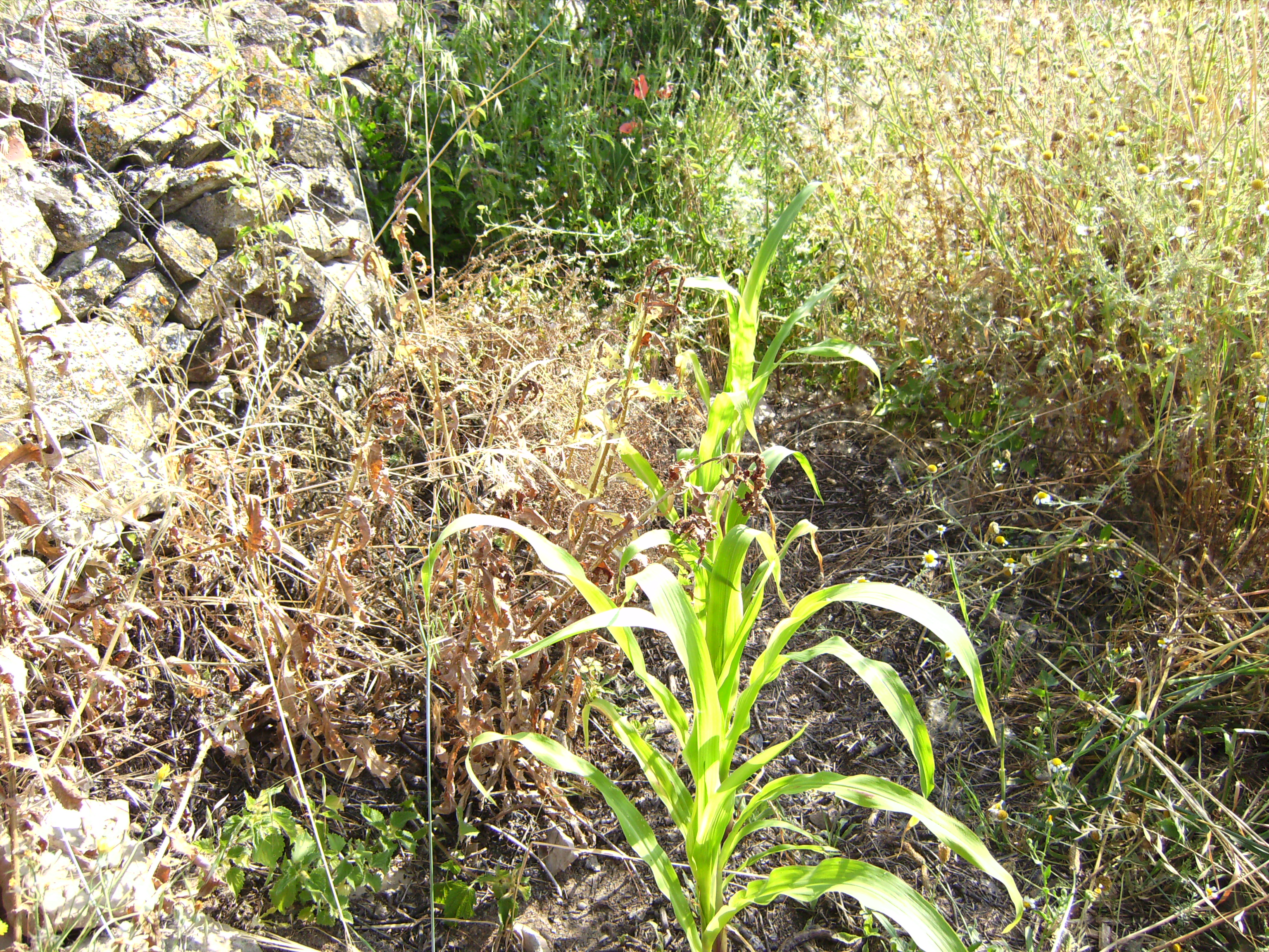 Herbicide glyphosate effect in weeds, maize crop, Castelltallat, Catalonia